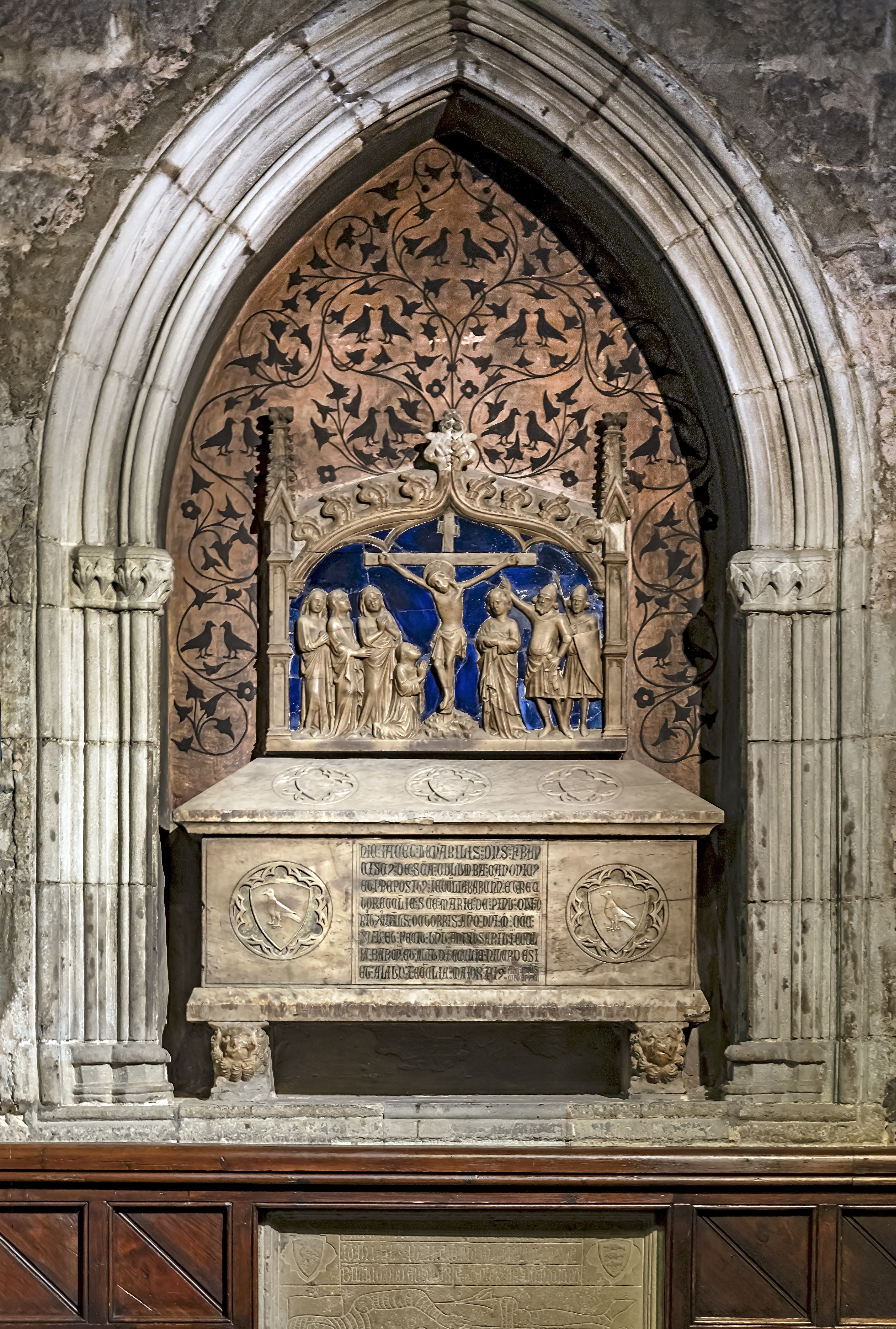 Cathedral of the Holy Cross and Saint Eulalia in Barcelona. The chapel of Saint Lucia (entering to the left) the tomb of Francesc de Santa Coloma, of the fourteenth century, surmounted by a calvary carved in stone on a background of blue glass, the figure appears represented kneeling near the cross.